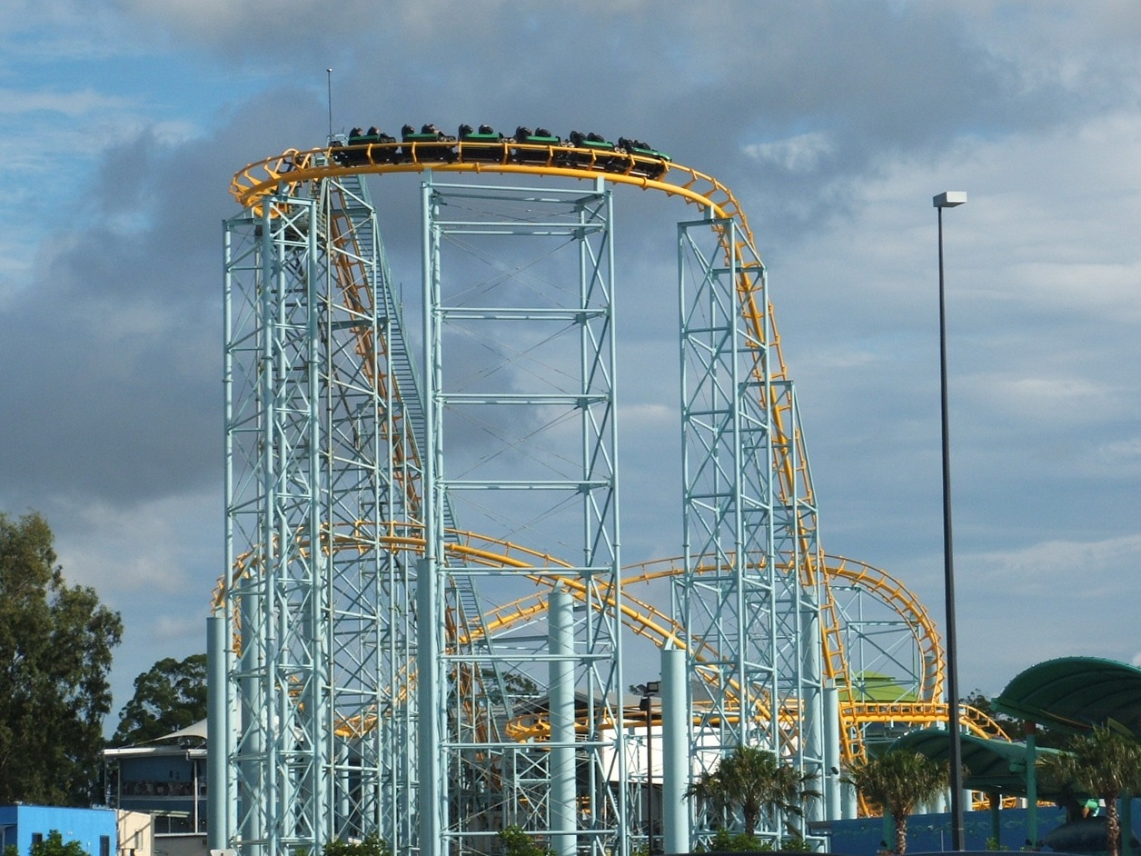 The Cyclone roller coaster at Dreamworld, Australia. Cropped from original photograph